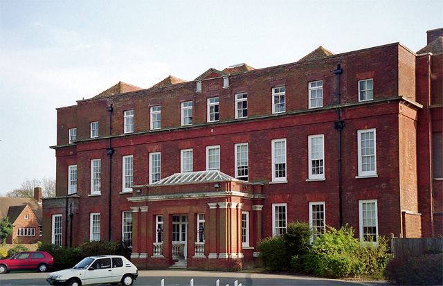 Built 1708, notable for its likely author, Nicholas Hawksmoor. That one wouldn't know from looking at it can probably be explained by unsympathetic early C20th alterations "that make uncertain exactly how much of Hawksmoor's work survives." Grade II* listed. It is now part of the University of Southampton, until recently a hall of residence. The date of the photo is uncertain.